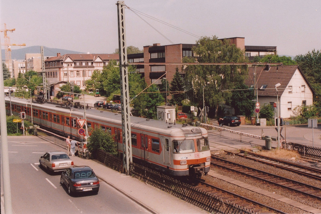 Eschborn train station, June 2000